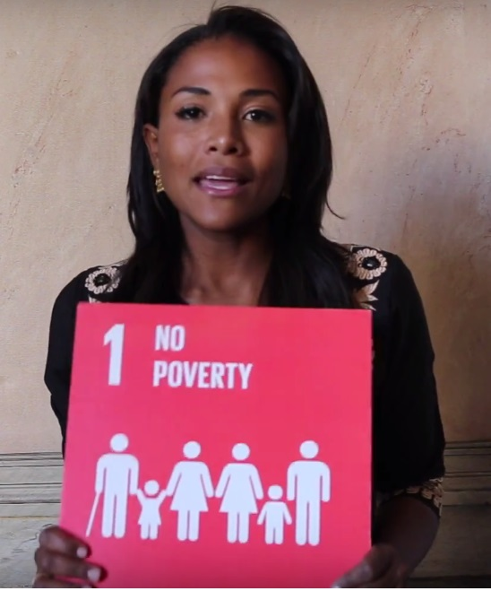 Greeting from Mabel Lara Colombia at the #FirstGeneration Global Goals Forum